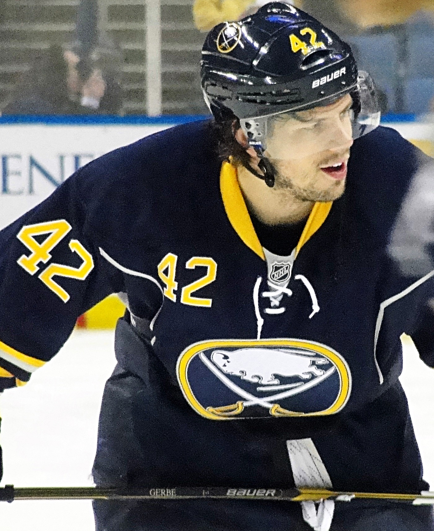 Buffalo Sabres forward Nathan Gerbe warms up for a February 19, 2012 game against the Pittsburgh Penguins at First Niagara Center in Buffalo, NY.